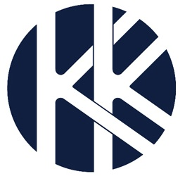 Kamikawa Saitama chapter